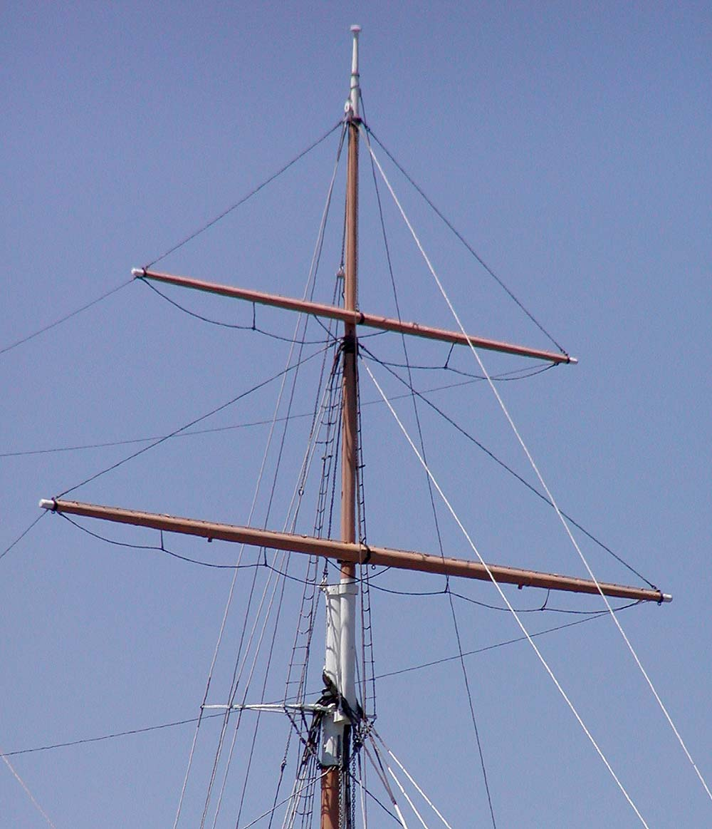 Balclutha's fore topgallant mast Object location37° 48′ 35.28″ N, 122° 25′ 21″ W